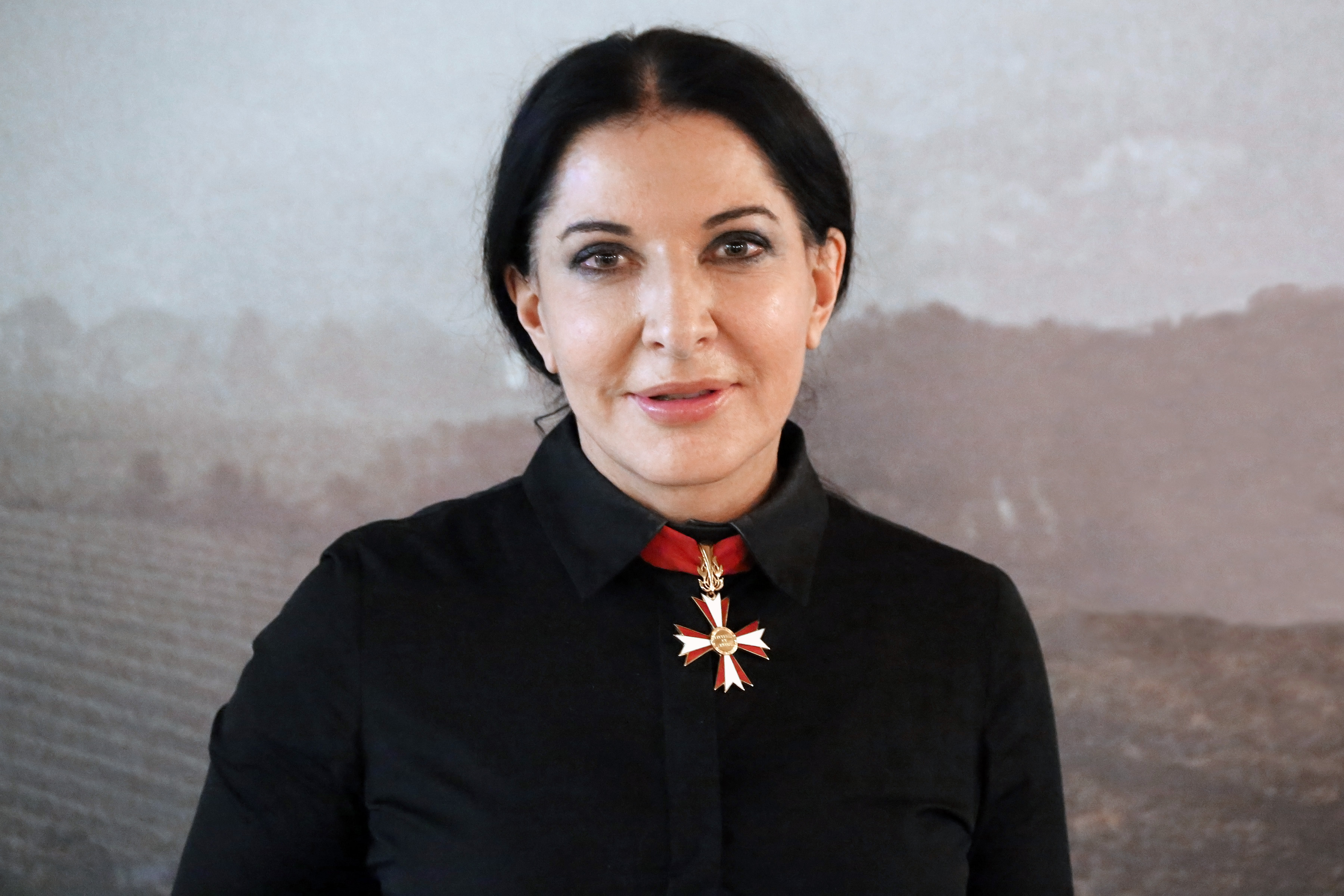 Marina Abramović (with the Austrian Decoration for Science and Art she recieved in 2008) at the screening of Marina Abramović: The Artist Is Present during the Vienna International Film Festival 2012, Gartenbaukino.